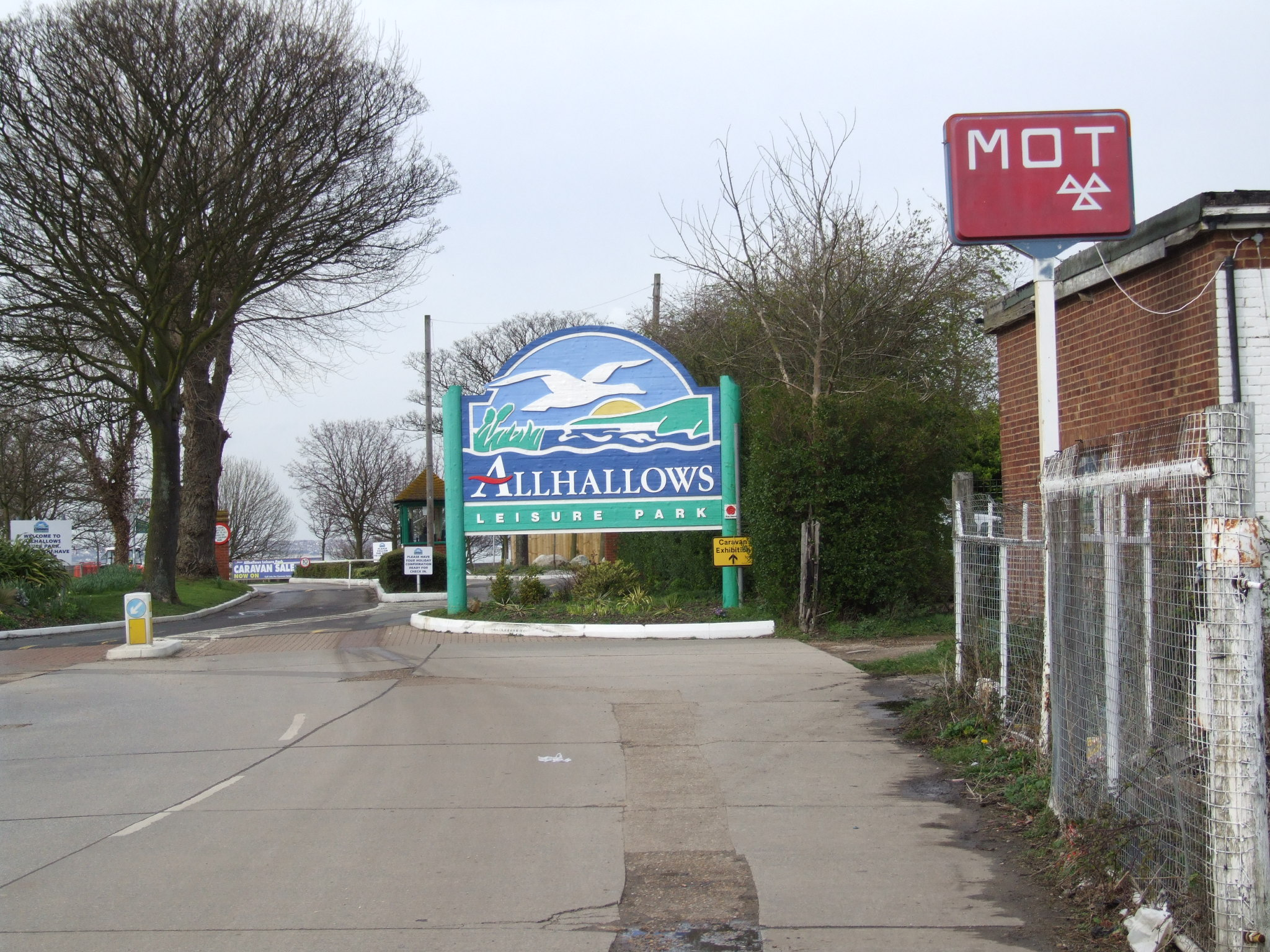 Allhallows, Kent is a village on the Hoo Peninsula. It is divided into two parts Hoo Allhallows and Allhallows on sea. The entrance to the caravan park in Allhallows on Sea. Public footpaths pass through the site. This is a large caravan site with other mobile homes and cabins. - Google Maps - Google Earth